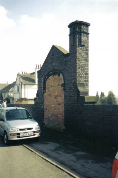 Belgrave and Birstall station entrance (road level), spring 2003 by Ronnie Clark